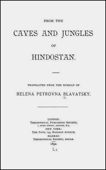 H. P. Blavatsky's Book From the Caves and Jungles of Hindostan. Title page to 1892 edition.